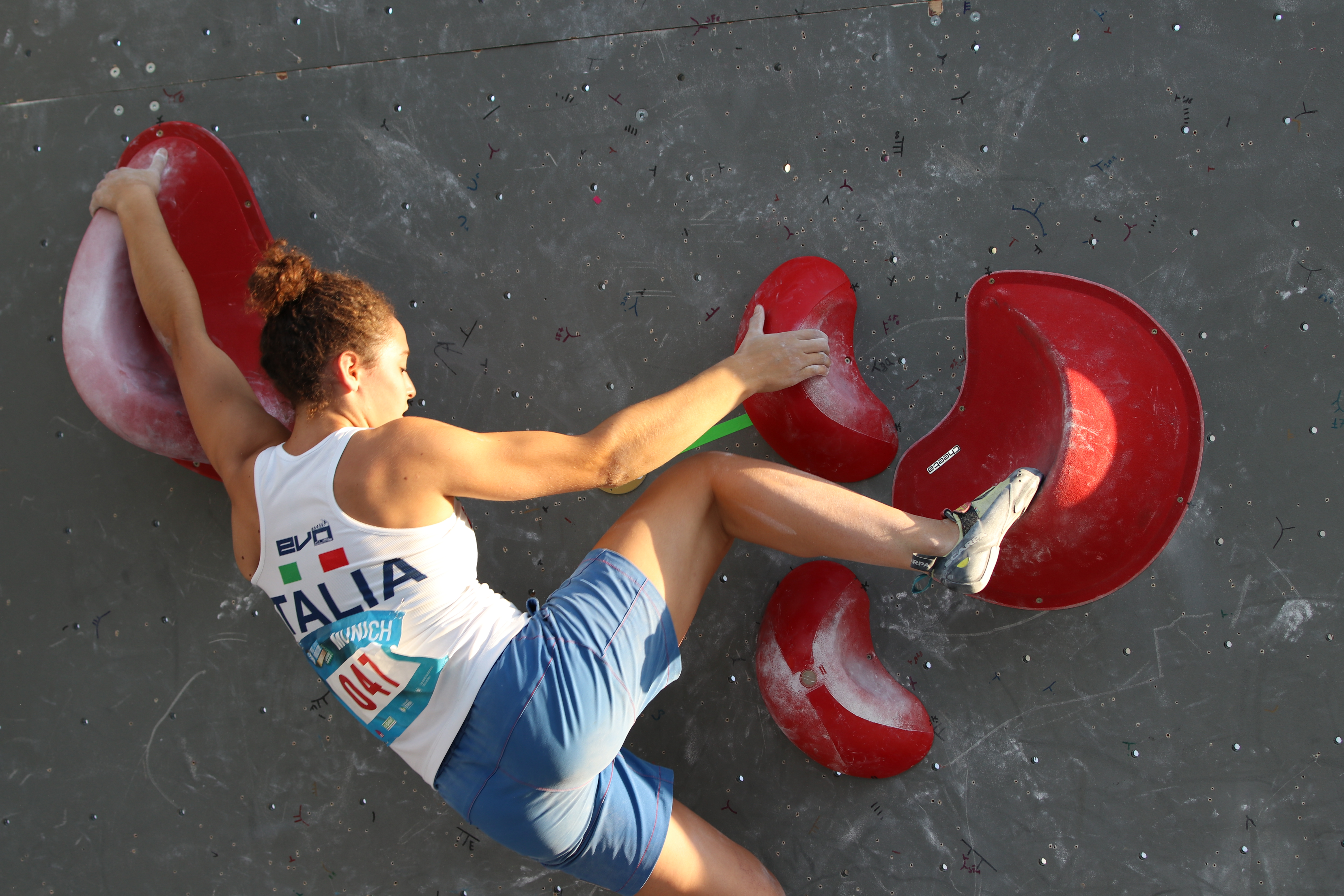 Giorgia Tesio ITA at the Boulder Worldcup 2017 in Munich, Germany.